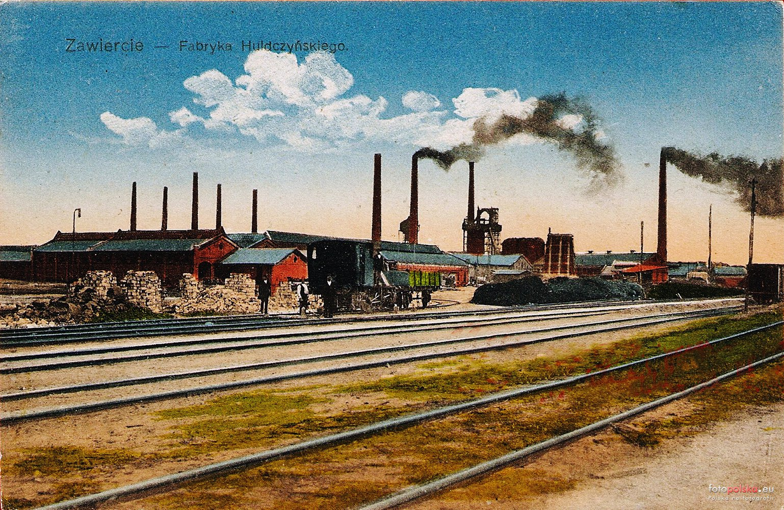 Huldczyński Factory in Zawiercie (later: \Zawiercie steelworks), Poland, the postcard.